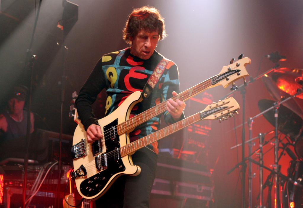 Marillion bassist Pete Trewavas on stage at the 2009 Canadian Marillion weekend festival in Montreal.